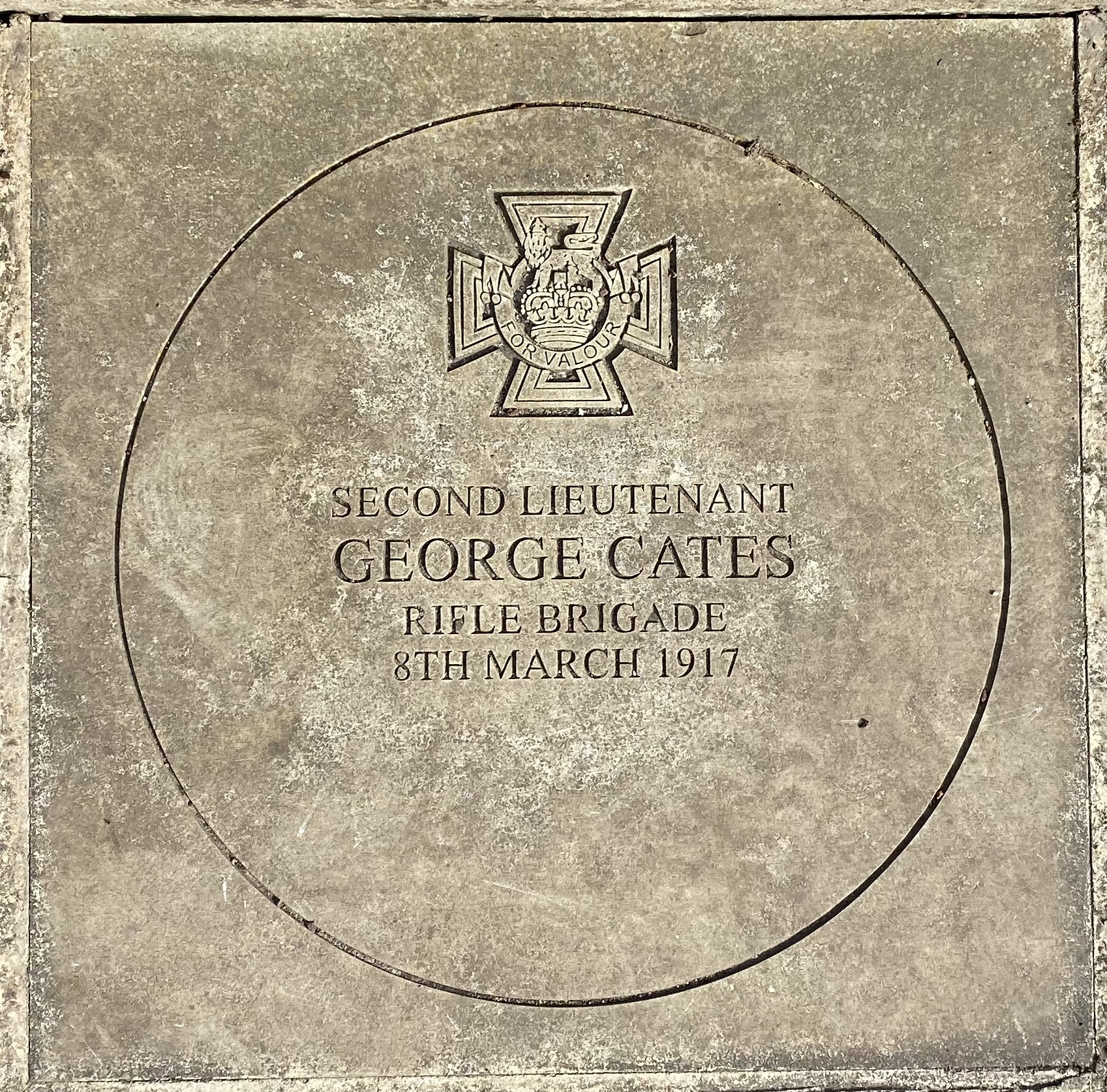 Memorial plaque to Second Lieutenant George Cates, Rifle Brigade, died 8th March 1917 installed adjacent to the Wimbledon War Memorial. It shows an engraving of the Victoria Cross.